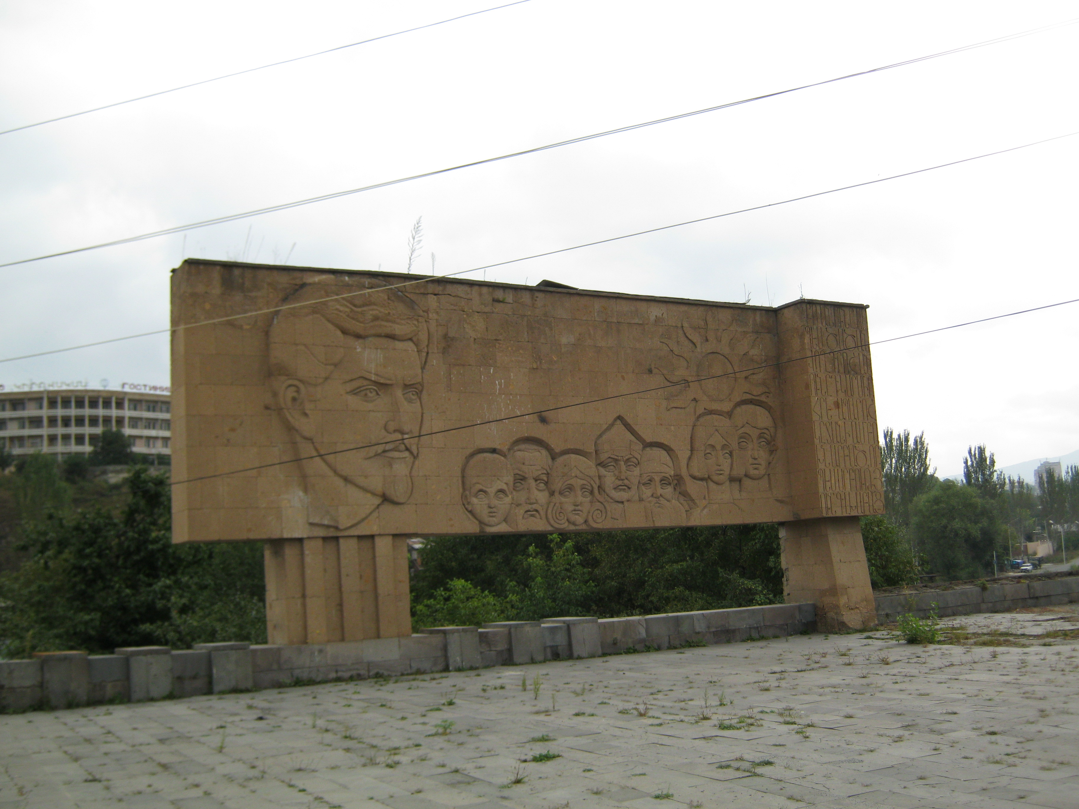 Shahumyan memorial in Vanadzor